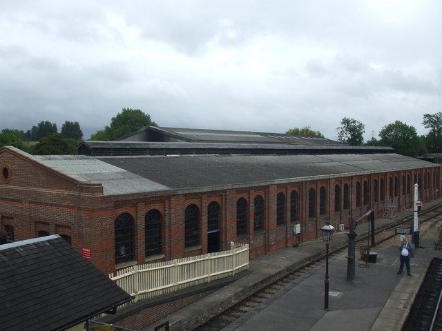 Sheffield Park engine shed Bluebell Railway